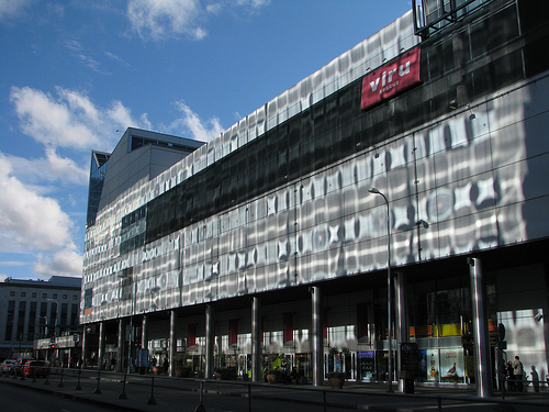 Center of Tallinn City